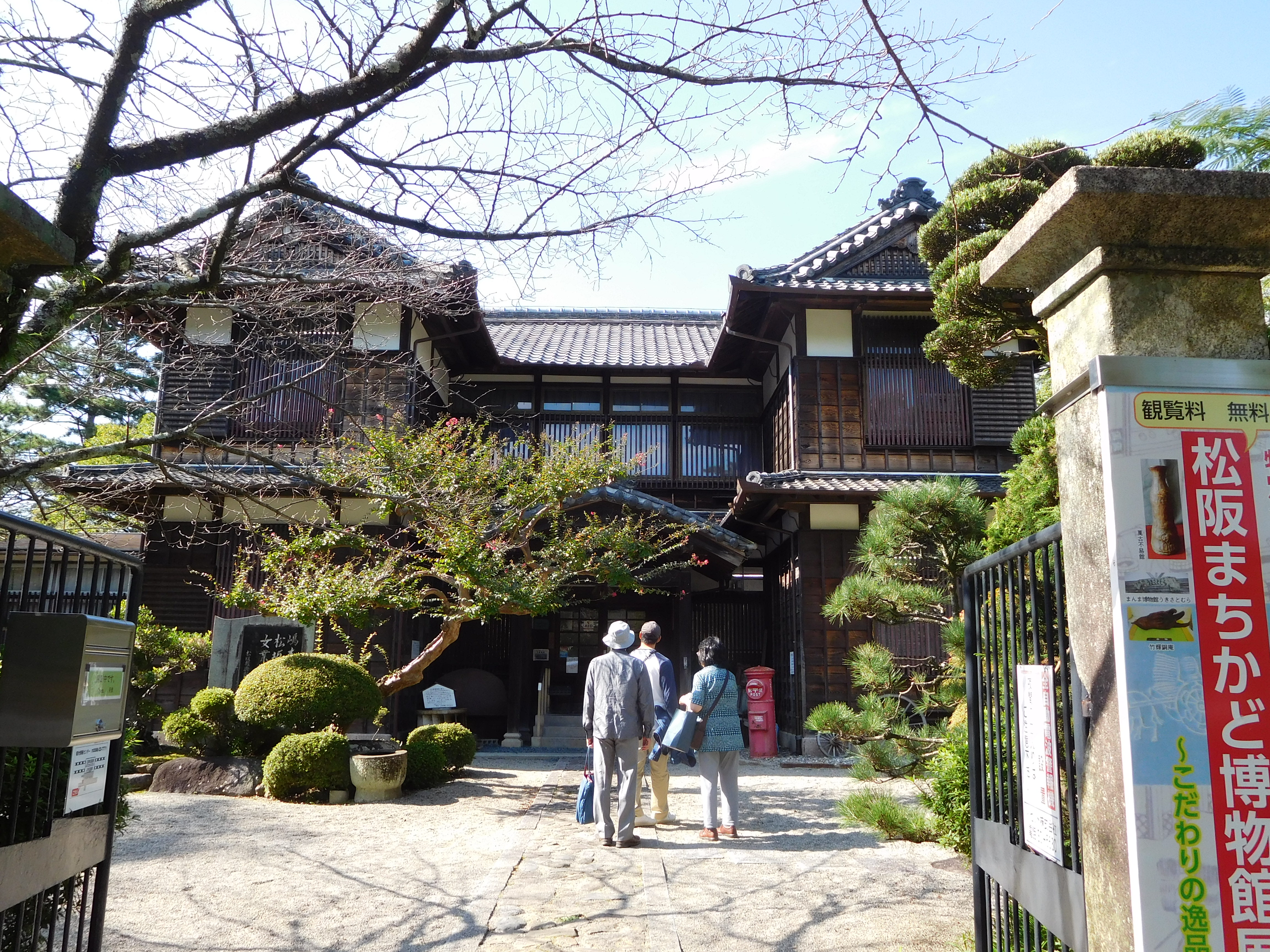 This is the Matsusaka City Museum of History and Folklore in Matsusaka, Mie, Japan. It was used as a library.